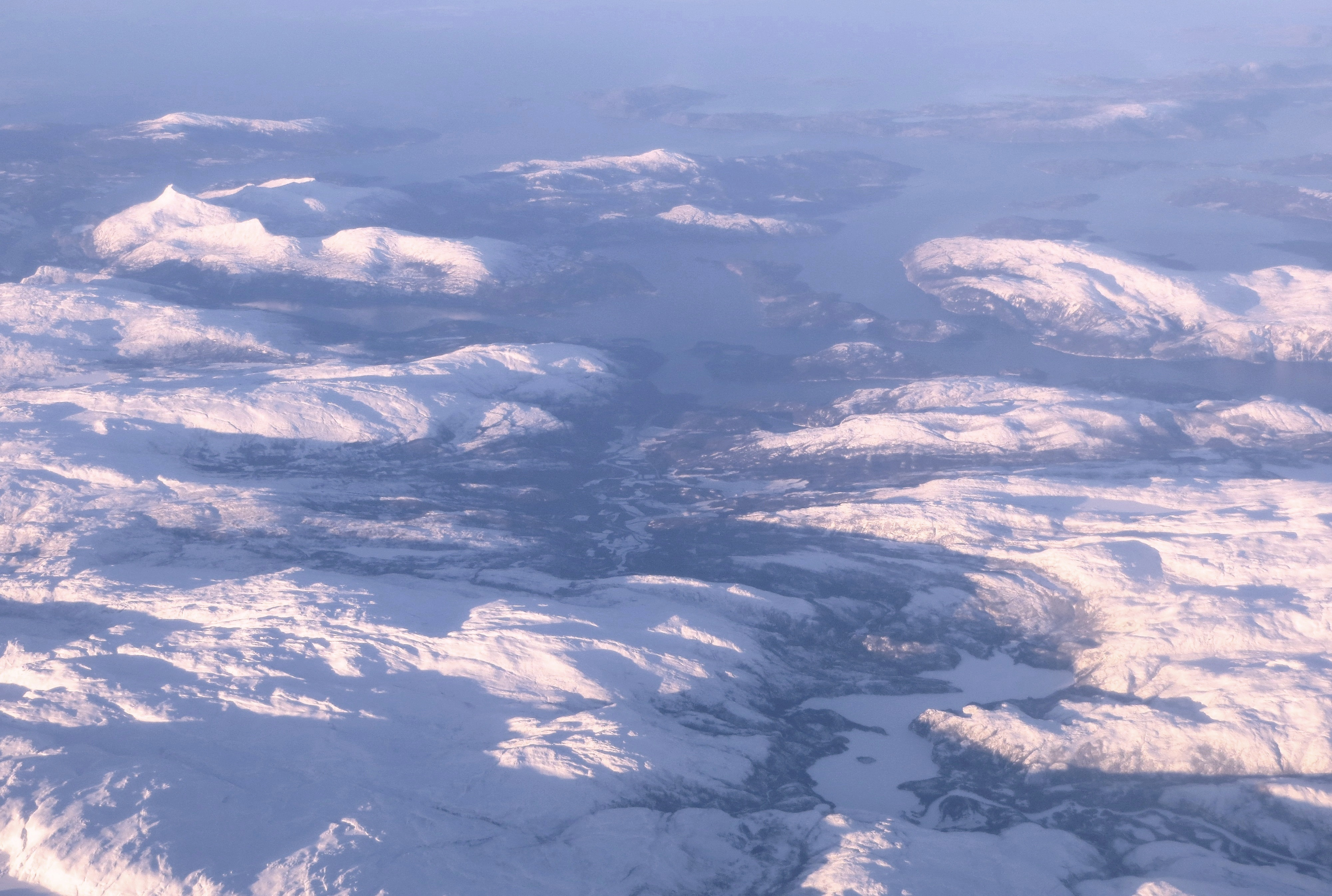 Aerial view from the east towards west, of Bindal municipality in Nordland county, Norway.The fjord in the centre of the photo is Bindalsfjorden.